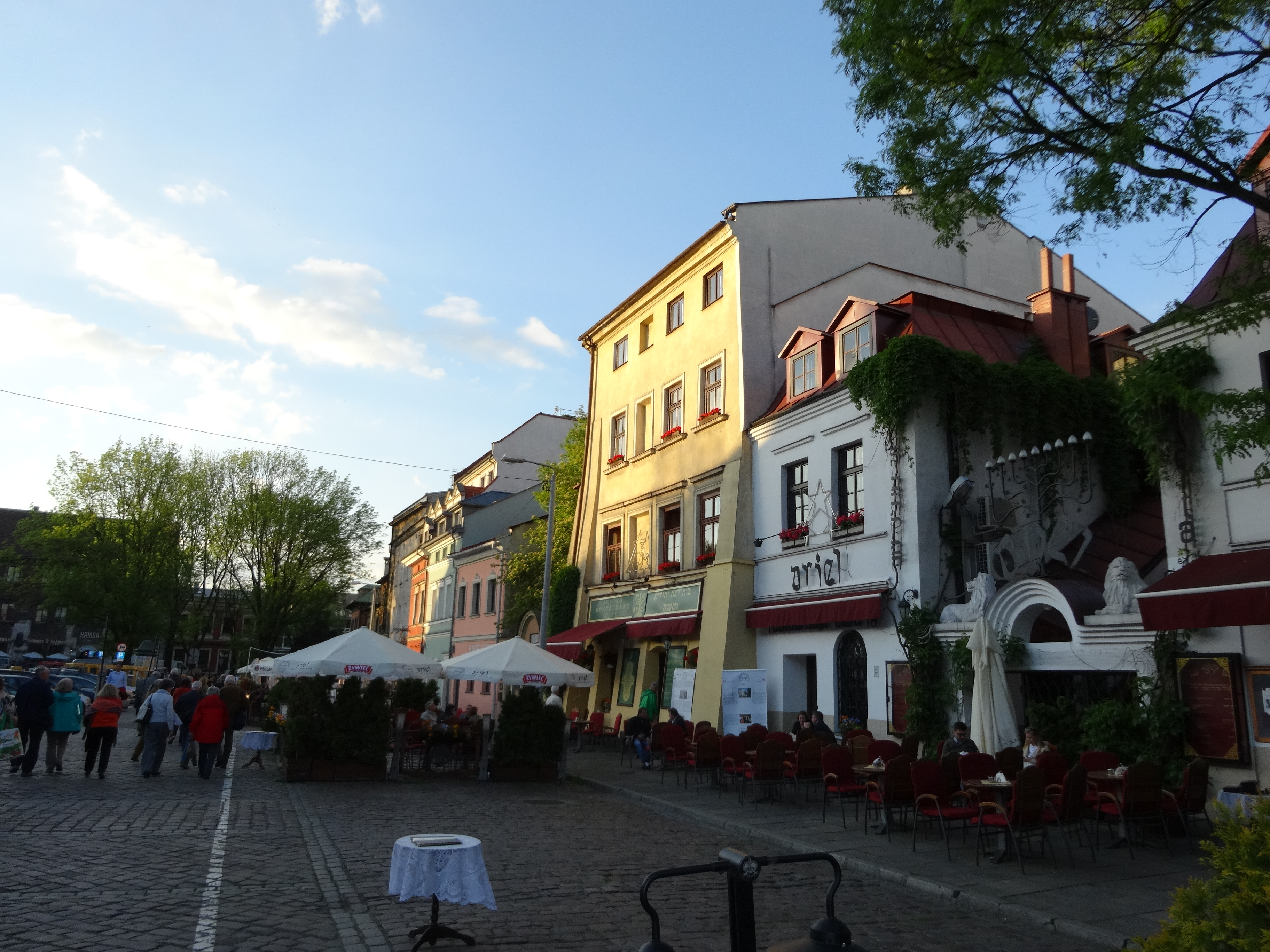 Old marketplace in Kazimierz, Krakow